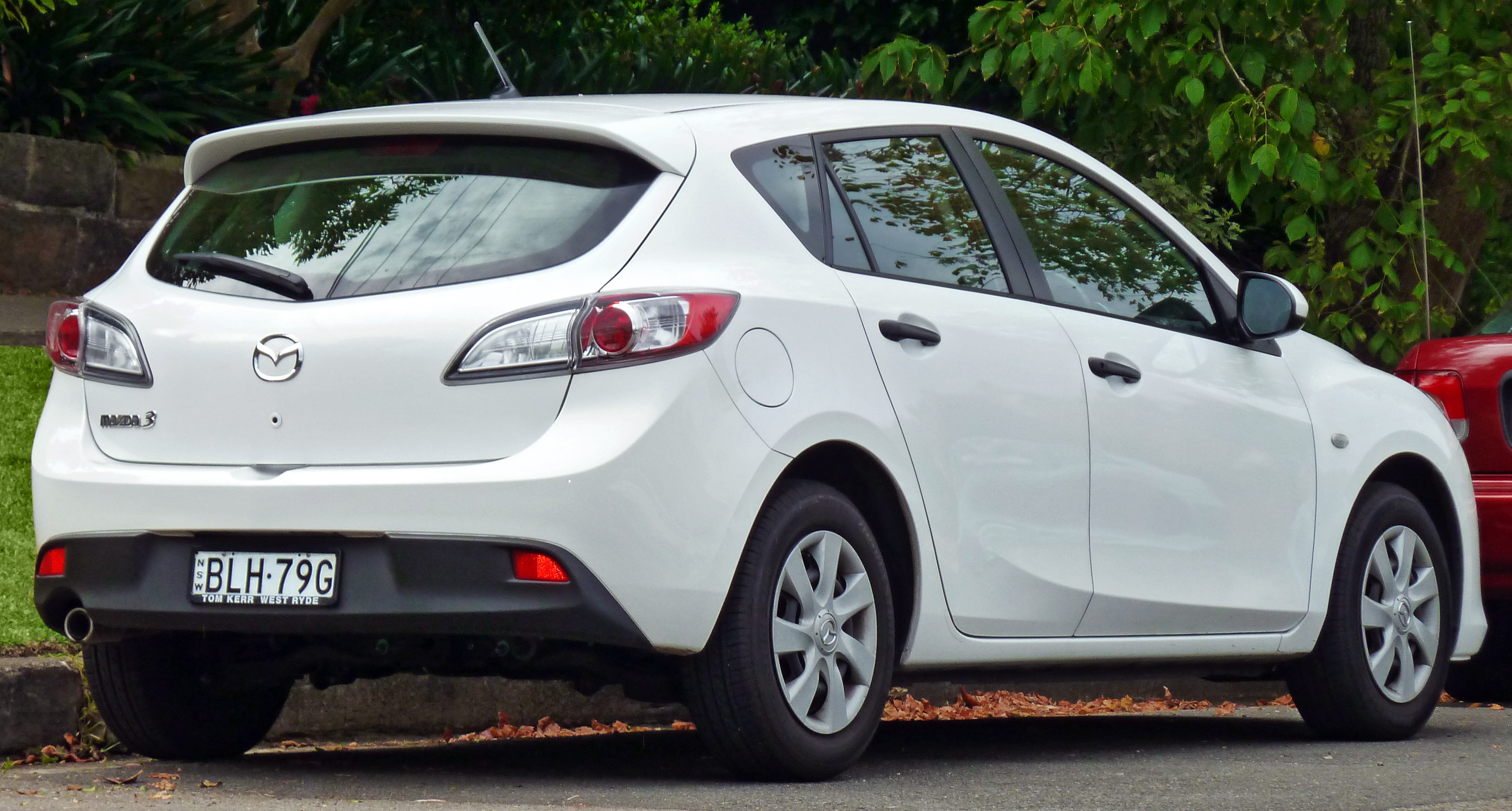 2009 Mazda3 (BL) Neo hatchback. Photographed in Lindfield, New South Wales, Australia.